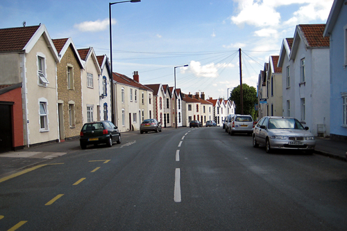 Kellaway Avenue, the main road through Golden Hill, Bristol.